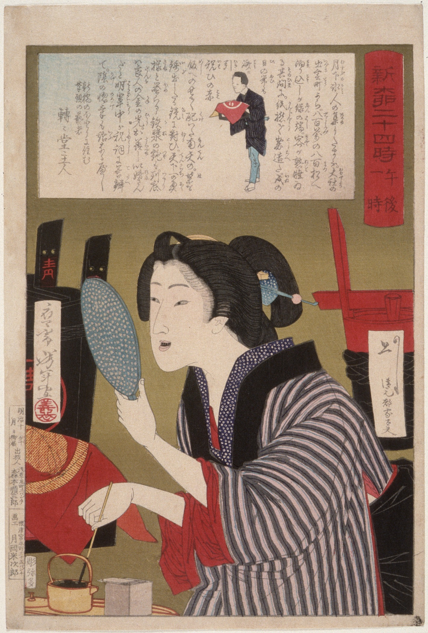 Japan, 1880, 10th month Series: Twenty-four Hours in Shinbashi and Yanagibashi Prints; woodcuts Color woodblock print Herbert R. Cole Collection (M.84.31.68) Japanese Art